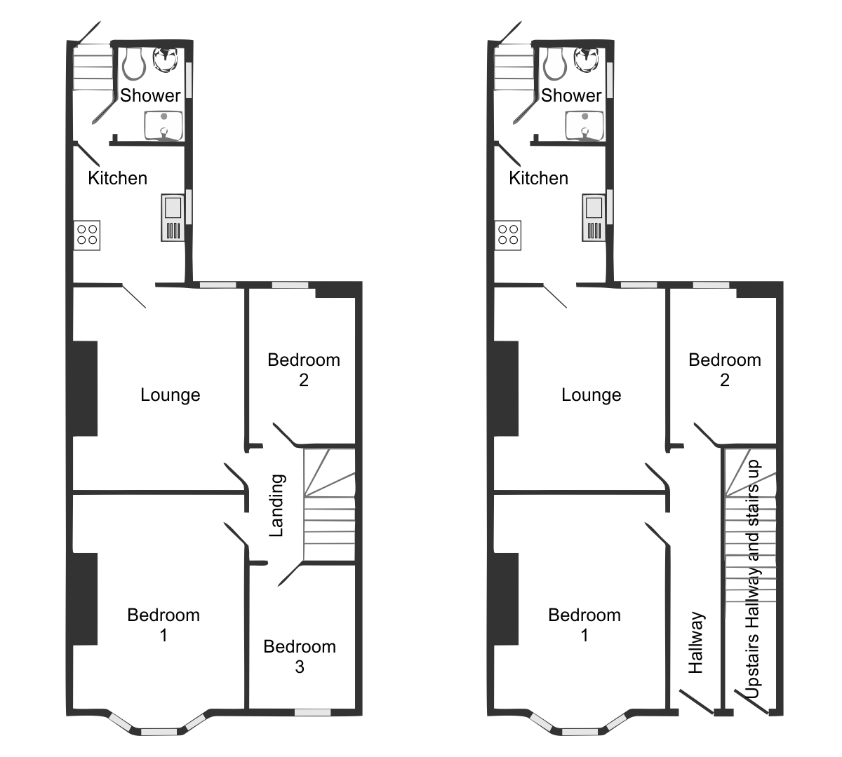 Illustrative floorplans for a pair of Tyneside flats, with a modern shower/toilet added to the rear outshot. Upper floor on the left, ground floor on the right.